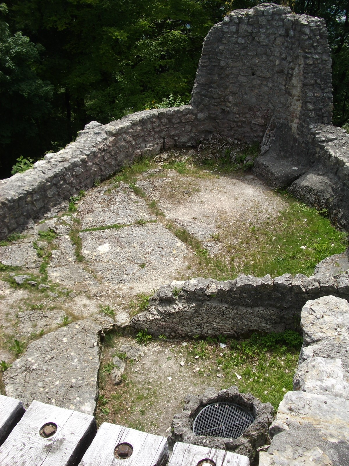 Oftringen AG, Switzerland